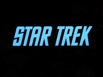 Star Trek Original Series title letters.